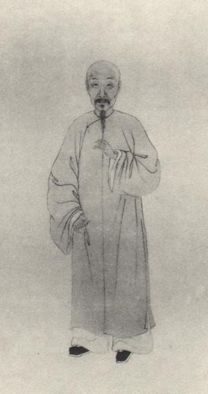 Chen Zufan, politician and scholar of the Qing Dynasty.